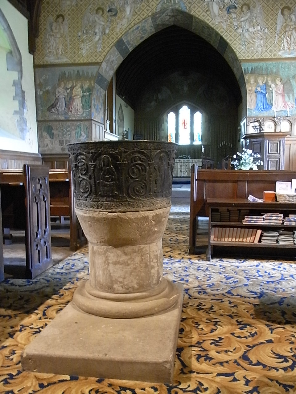 Norman baptismal font in St Anne's parish church, Siston, South Gloucestershire, England. One of a group in South Gloucestershire made about 1160–70.Maurice Denys (circa 1410–66), twice High Sheriff of Gloucestershire in 1460 and 1461, was baptized here.In the background is the chancel arch, with murals added late in the 19th century.